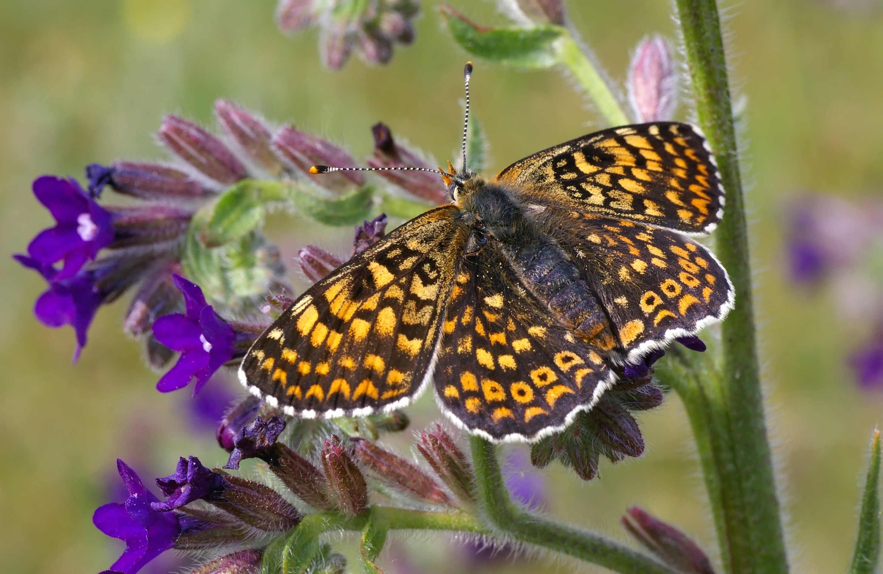 The butterfly Glanville Fritillary, Melitaea cinxia, sitting on Common Bugloss (Anchusa officinalis).